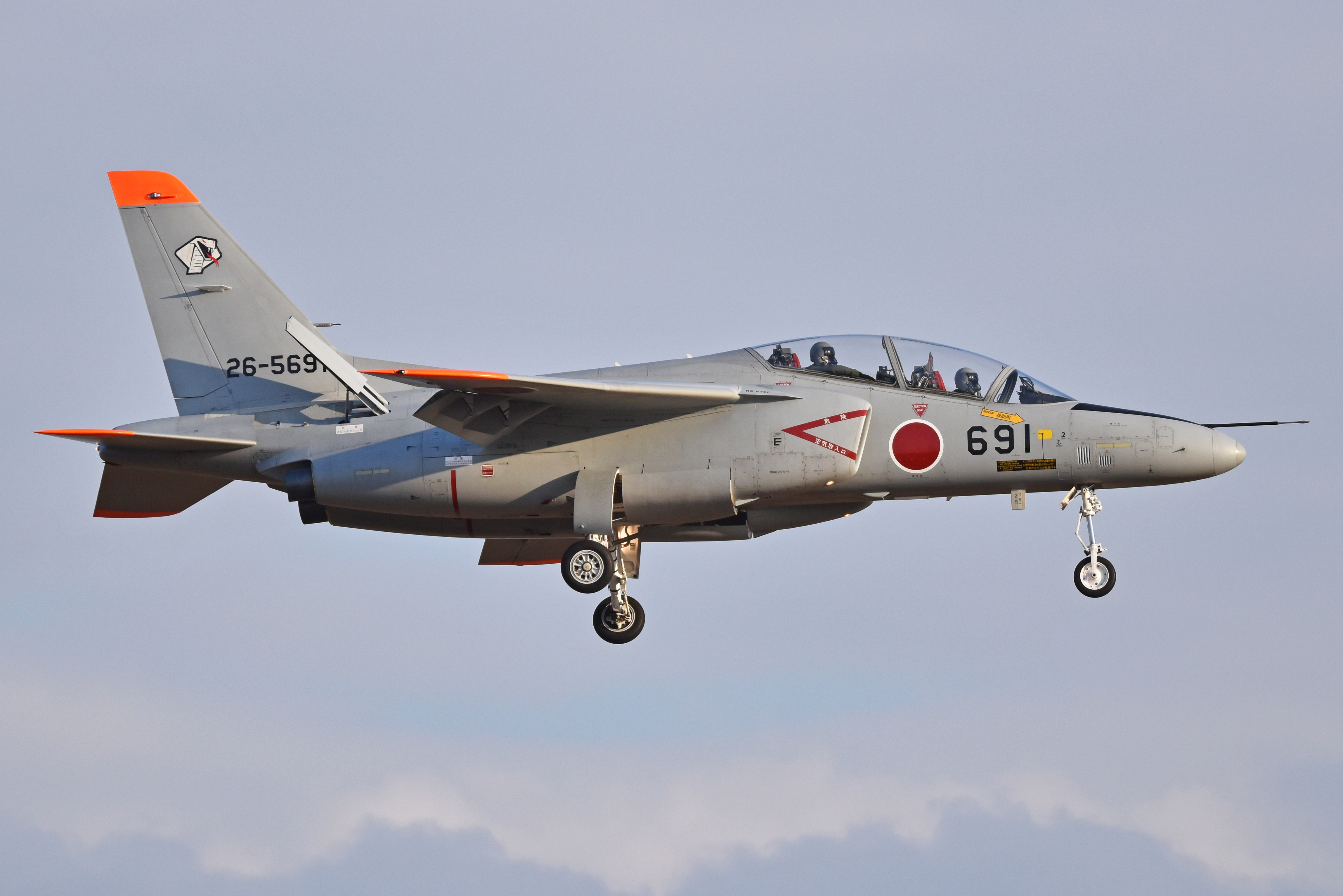 c/n 1091 Operated by the Tactical Fighter Training Group (Aggressor Sqn) of the Japanese Air Self Defence Force. Komatsu Air Base Ishikawa Prefecture, Japan 14th March 2019